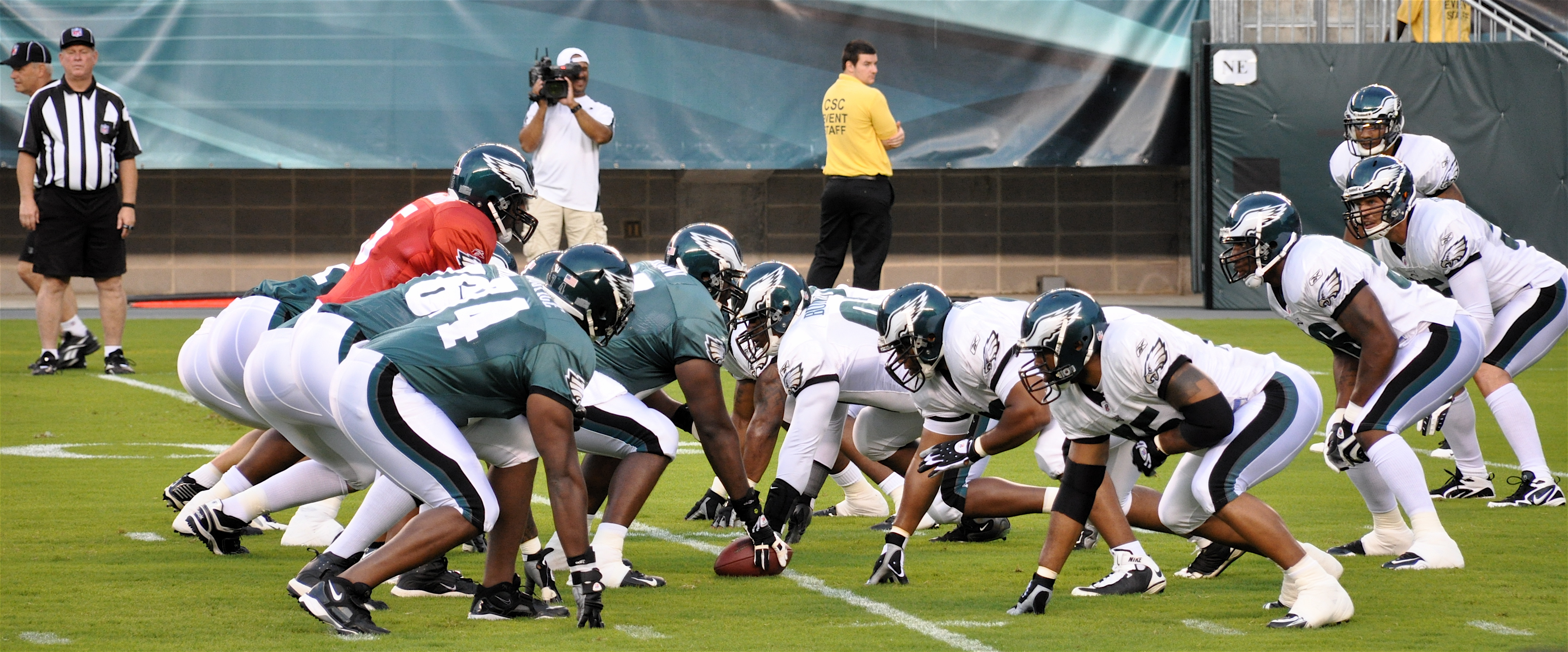 Donovan McNabb is in as QB during the Philadelphia Eagles' 2009 summer scrimmage game.